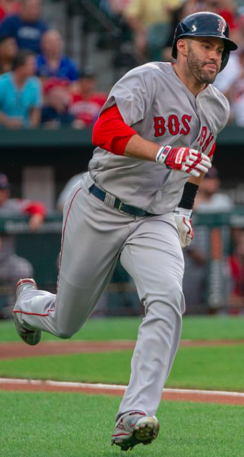 Julio Daniel Martinez (born 1987) is an American professional baseball right fielder for the Boston Red Sox of Major League Baseball (MLB). He has also played in MLB for the Houston Astros, Detroit Tigers and Arizona Diamondbacks.